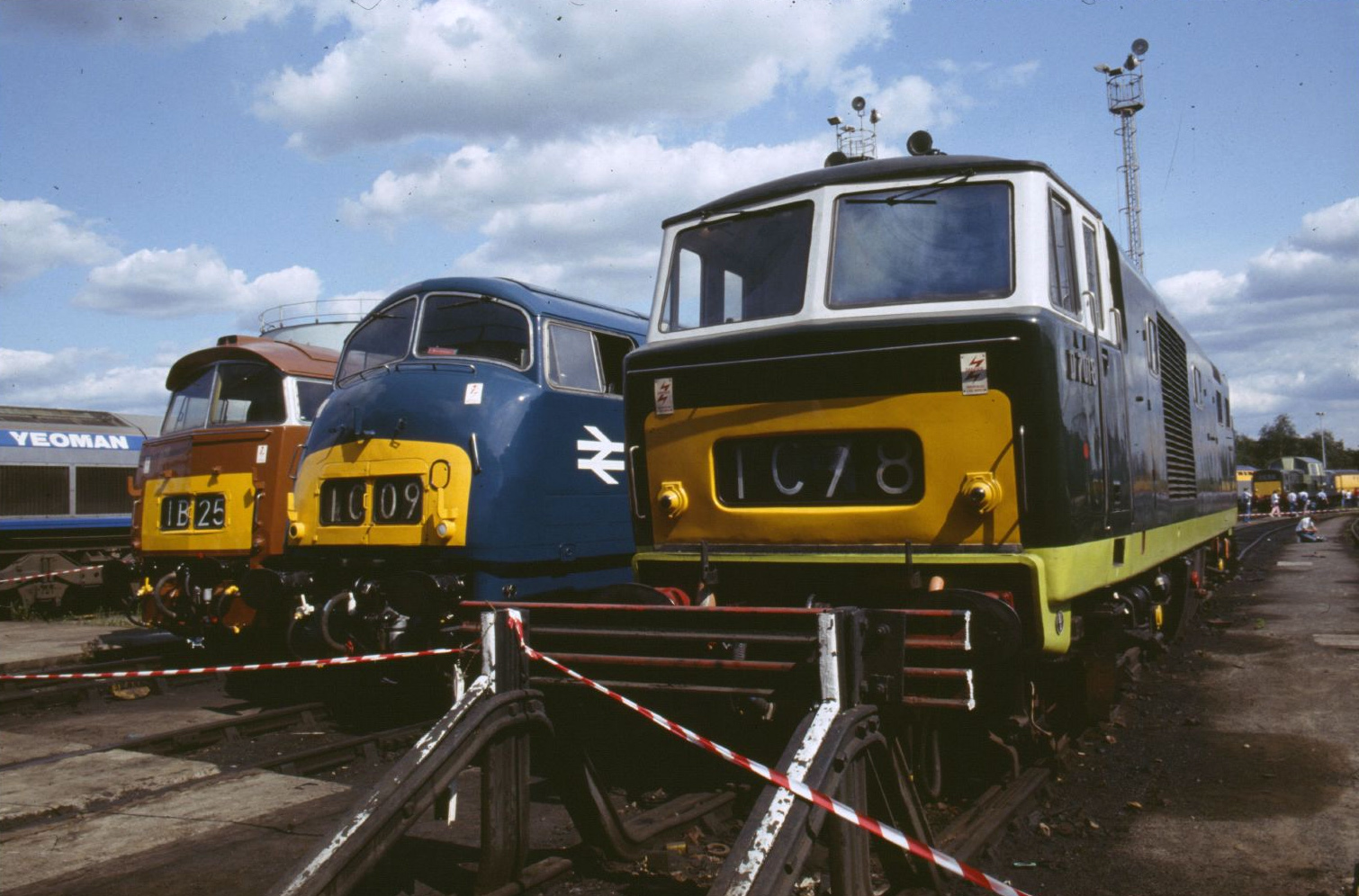 From left to right, British Rail Class 52 D1015 Western Champion, British Rail Class 42 D821 Greyhound and British Rail Class 35 D7018. Three preserved diesel-hydraulic locomotives on display at an Old Oak Common depot open day in 1991.